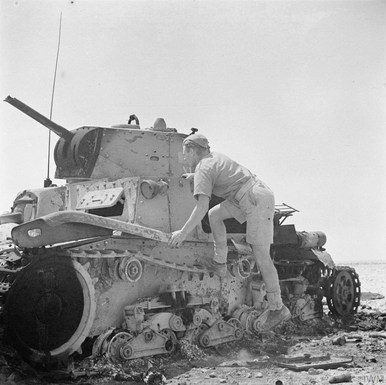 The British Army in North Africa 1942 A soldier inspects an Italian M13/40 tank that was knocked out by anti-tank guns near El Alamein, 11 July 1942.